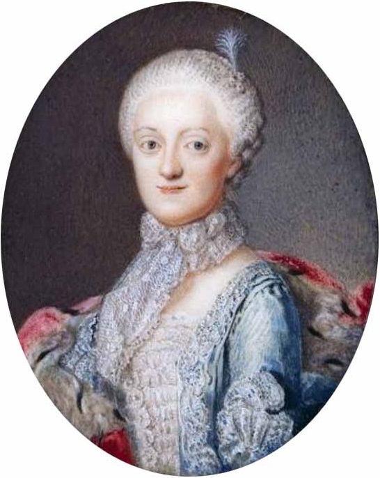 Portrait of Maria Kunigunde of Saxony (1740-1826), Abbess of Thorn and Essen